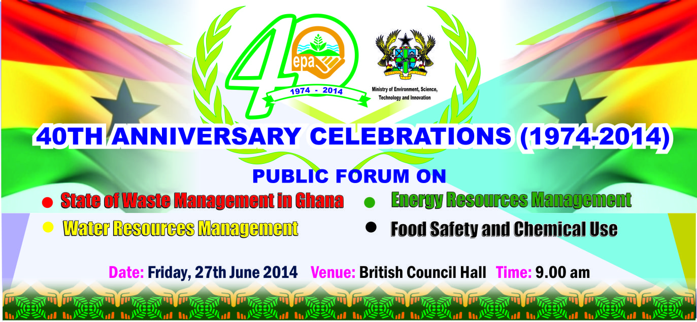 Agency celebrates 40th Anniversary